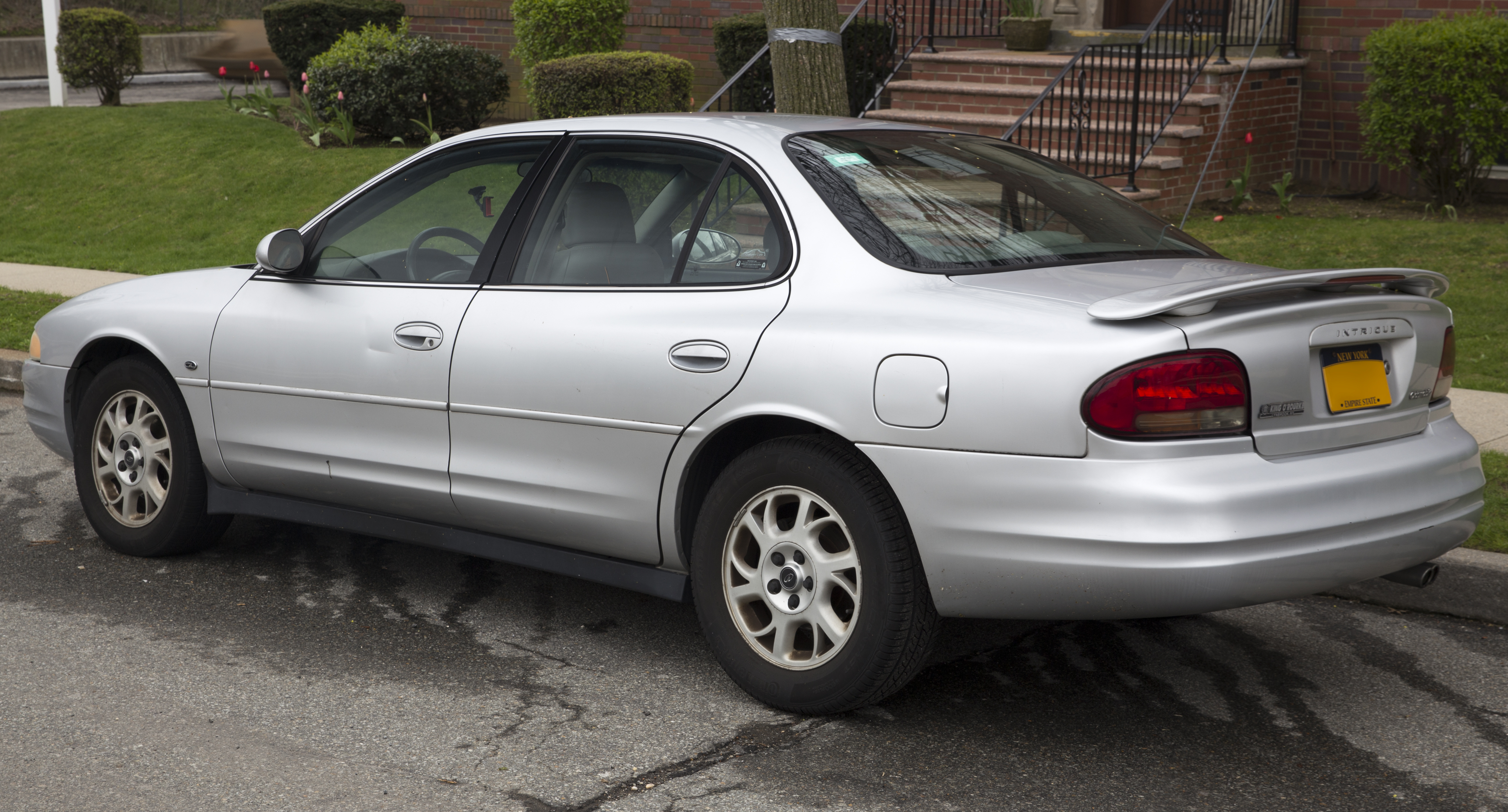 A 2002 Oldsmobile Intrigue GL in Eastern Queens. Built in GM's Fairfax II plant (Kansas), LX5 3.5-liter V6.